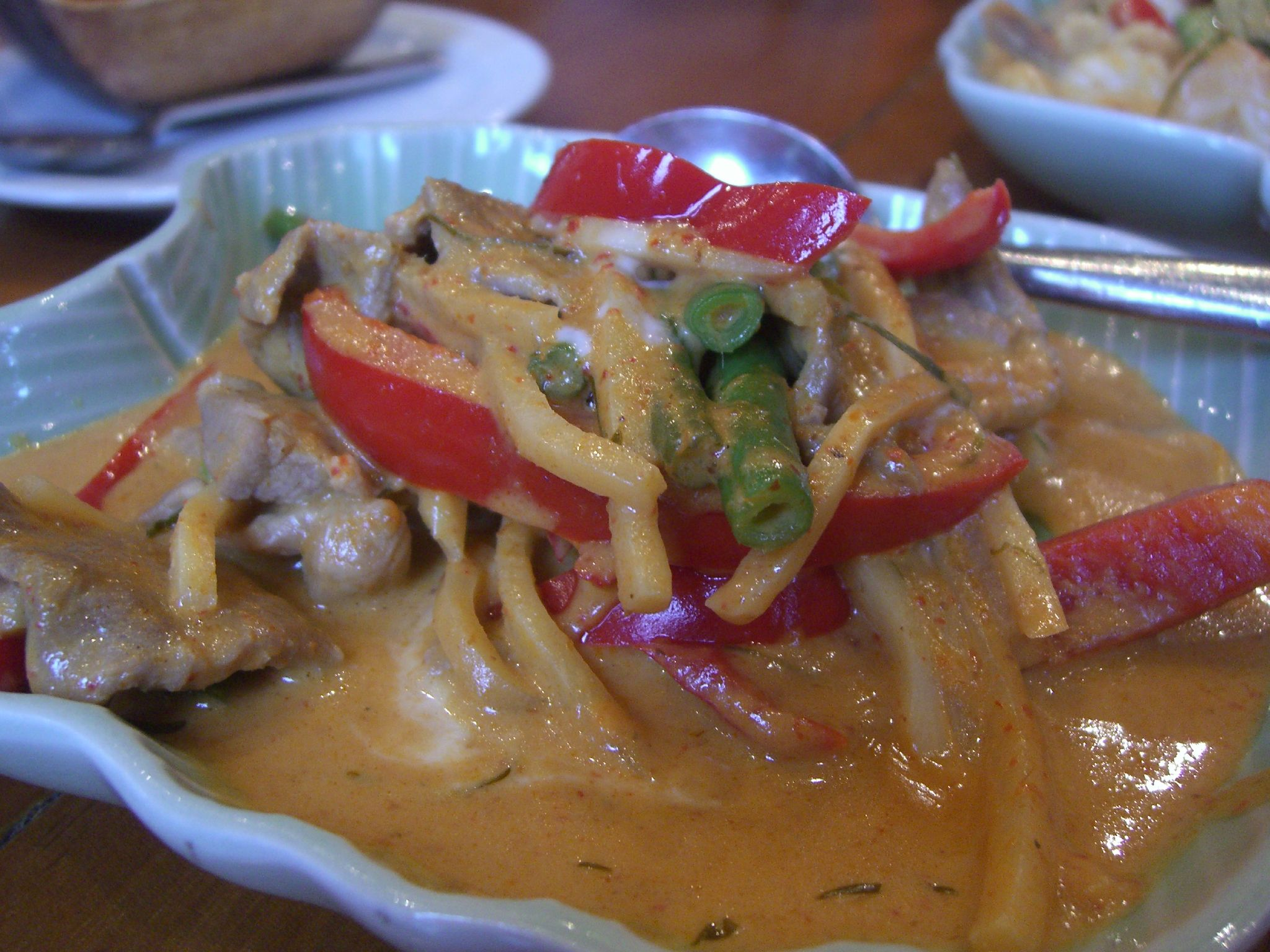 Panang Beef Curry - Poppy Thai AUD18.90 --- Jaslyn wanted Thai for her birthday, as so we went to Poppy Thai. The Thai food was quite good, very rich, creamy, and full of coconut. The spices were a bit toned down though, which is probably why I think it is still my favourite Thai place in Melbourne. The serves of the main dishes were quite decent too, but the tom yum soup was a bit steep at AUD7.90 for a small bowl. Raymond also picked up a Black Forest cake from Cake World for dessert. This was followed by a bit of Dance Dance Revolution: Mario Mix to work off the dinner and cake! Photos: - Decor - Thai Fish Cake - Crumbed Calamari Rings - Red Curry Duck - Shoo Shee Prawns - Panang Beef Curry - Gai Yang Grilled Chicken - Yum Ped Duck Salad - David with Jaslyn's cake - Jaslyn and Birthday Cake - natural - Jaslyn and Birthday Cake - Jaslyn makes a wish - Jaslyn and Raymond play DDR: Mario Mix